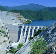 Dam in Platanovrisi, Drama, Greece